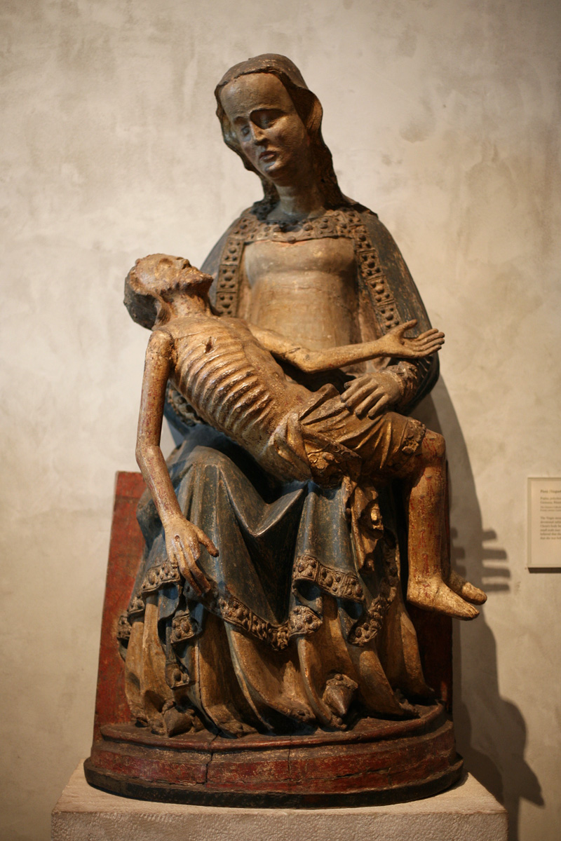 Pietà, 1375–1400 German Poplar, plaster, polychromy, gilding ; 52 1/4 x 27 3/8 in. (132.7 x 69.5 cm) The Metropolitan Museum of Art, New York, The Cloisters Collection, 1948 (48.85) View at the Metropolitan Museum of Art website Wikipedia Loves Art at the Metropolitan Museum of Art This photo of item # 48.85 at the Metropolitan Museum of Art was contributed under the team name "shooting_brooklyn" as part of the Wikipedia Loves Art project in February 2009. Metropolitan Museum of Art The original photograph on Flickr was taken by shooting brooklyn—please add a comment to the original Flickr page whenever a use has been made on Wikipedia or another project. Project galleries on Flickr: this institution, this team